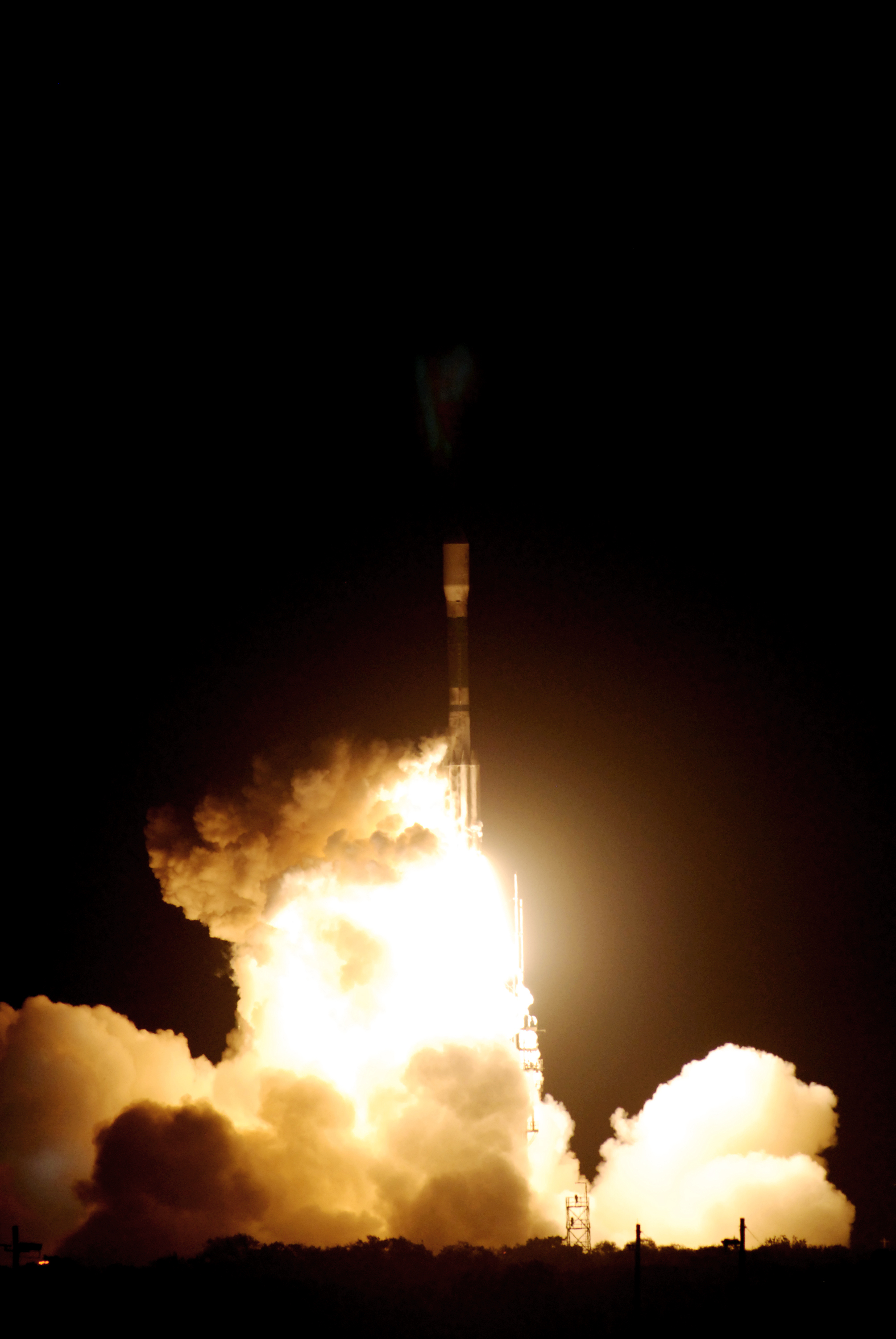 Launch of the Delta II rocket with Kepler spacecraft